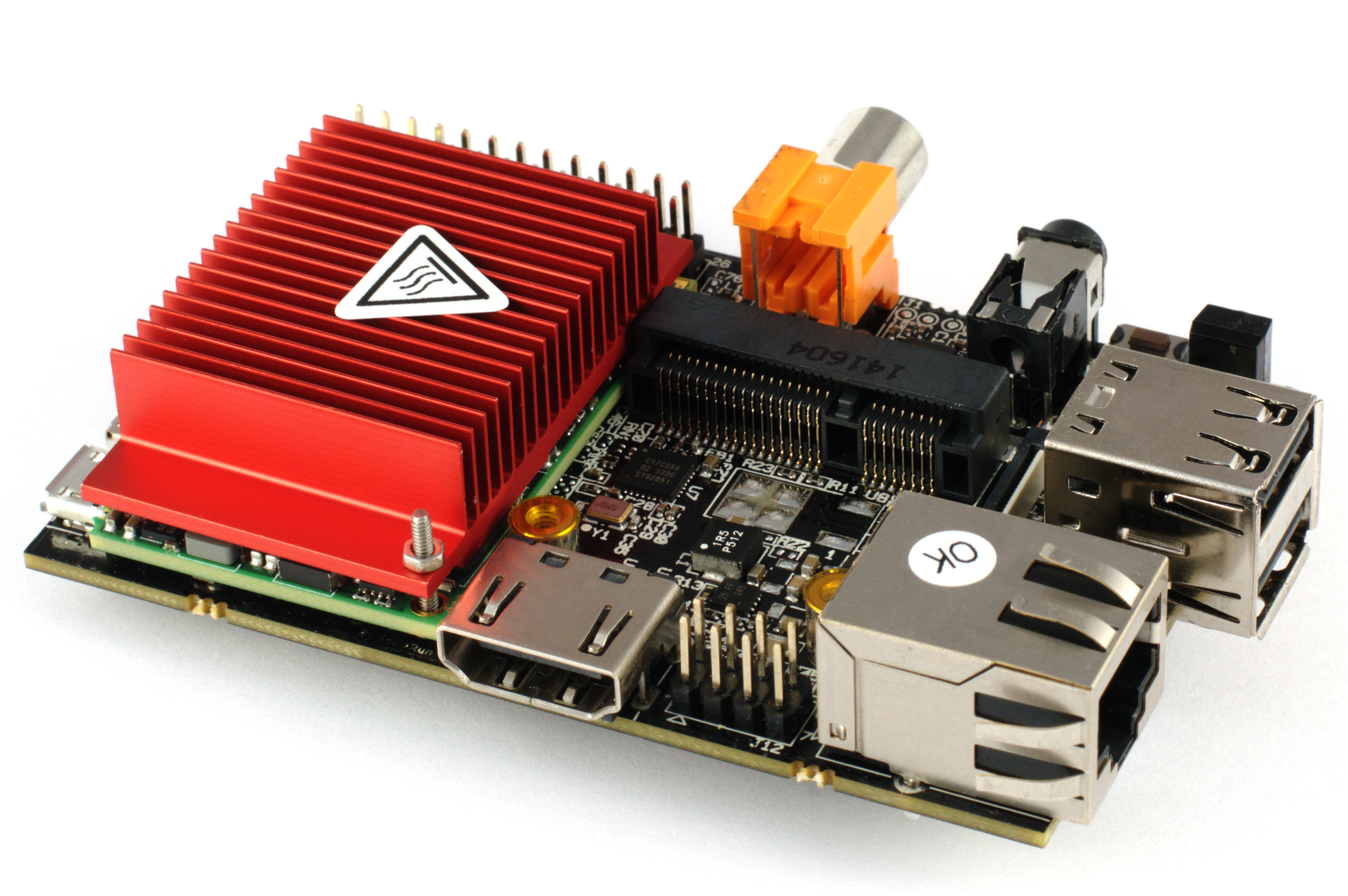 i.MX6-based computer-on-module (CoM) with carrier board and strangely massive heatsink, in a Raspberry Pi-compatible design.